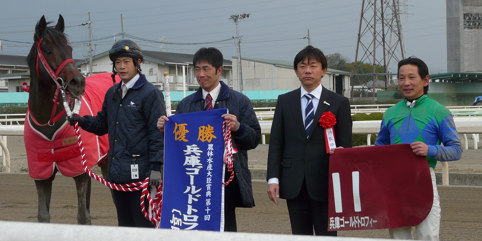 Tosen-Bright20101225